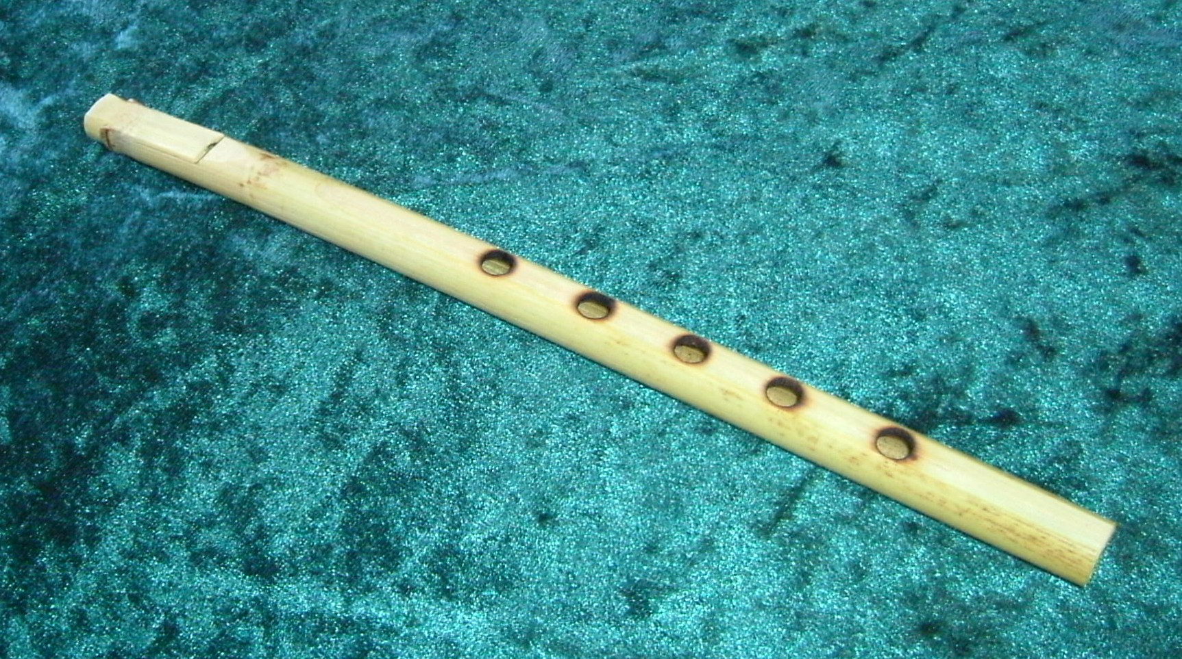 Reed pipe from Crete, different names: Mantoura, Mandoura, Mpantoura, Thiambioli, Monotsambouna